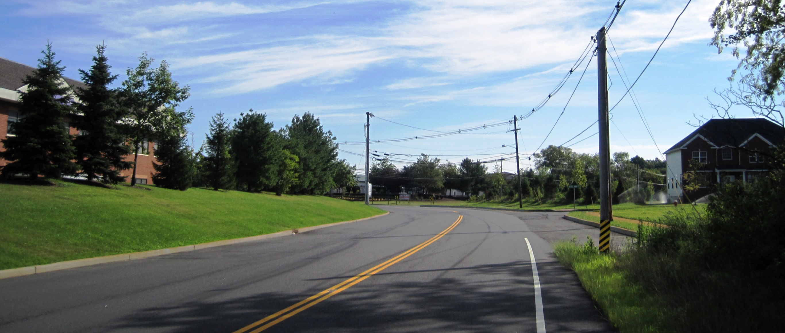 Photo of Union Valley, New Jersey, an unincorporated community within Monroe Township, Middlesex County. Photo taken along northbound Half Acre Road (County Route 615) approaching Union Valley Road.